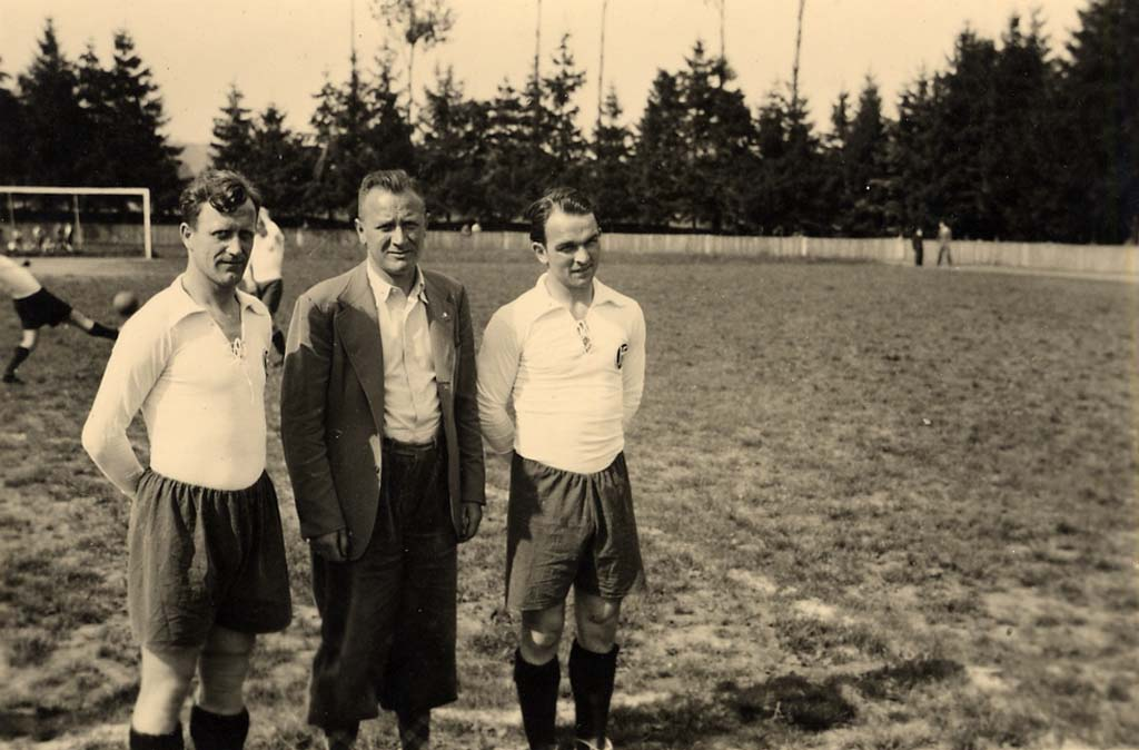 Max Breunig and Kurt Ehrmann .